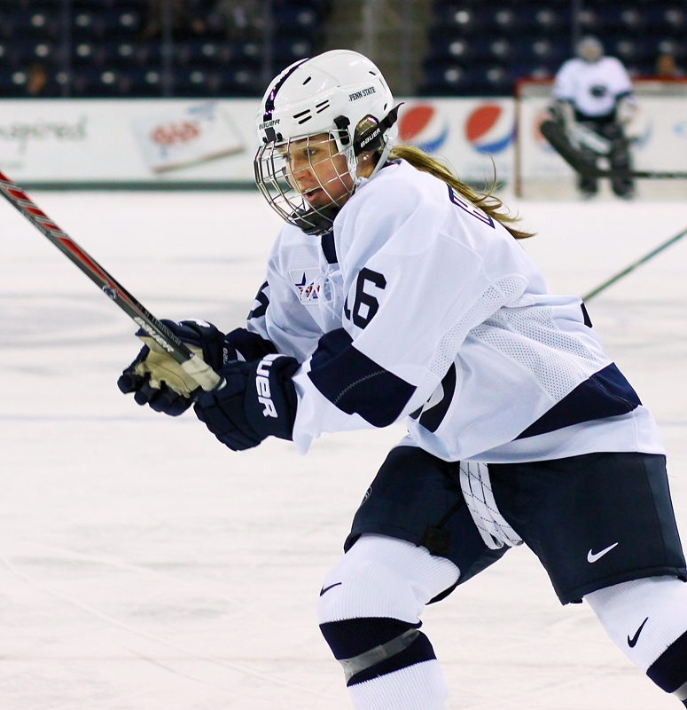 Penn State women's hockey player Hannah Hoenshell.